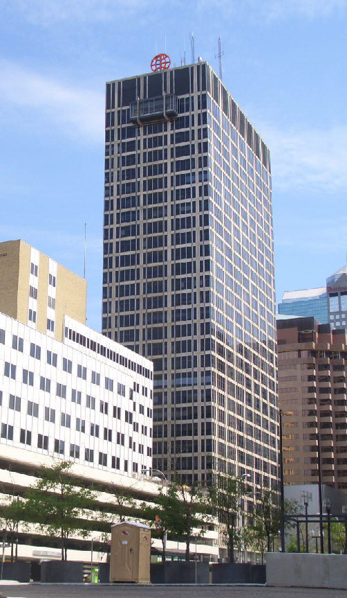 Commerce Tower, 909 Main Street, Kansas City, Missouri